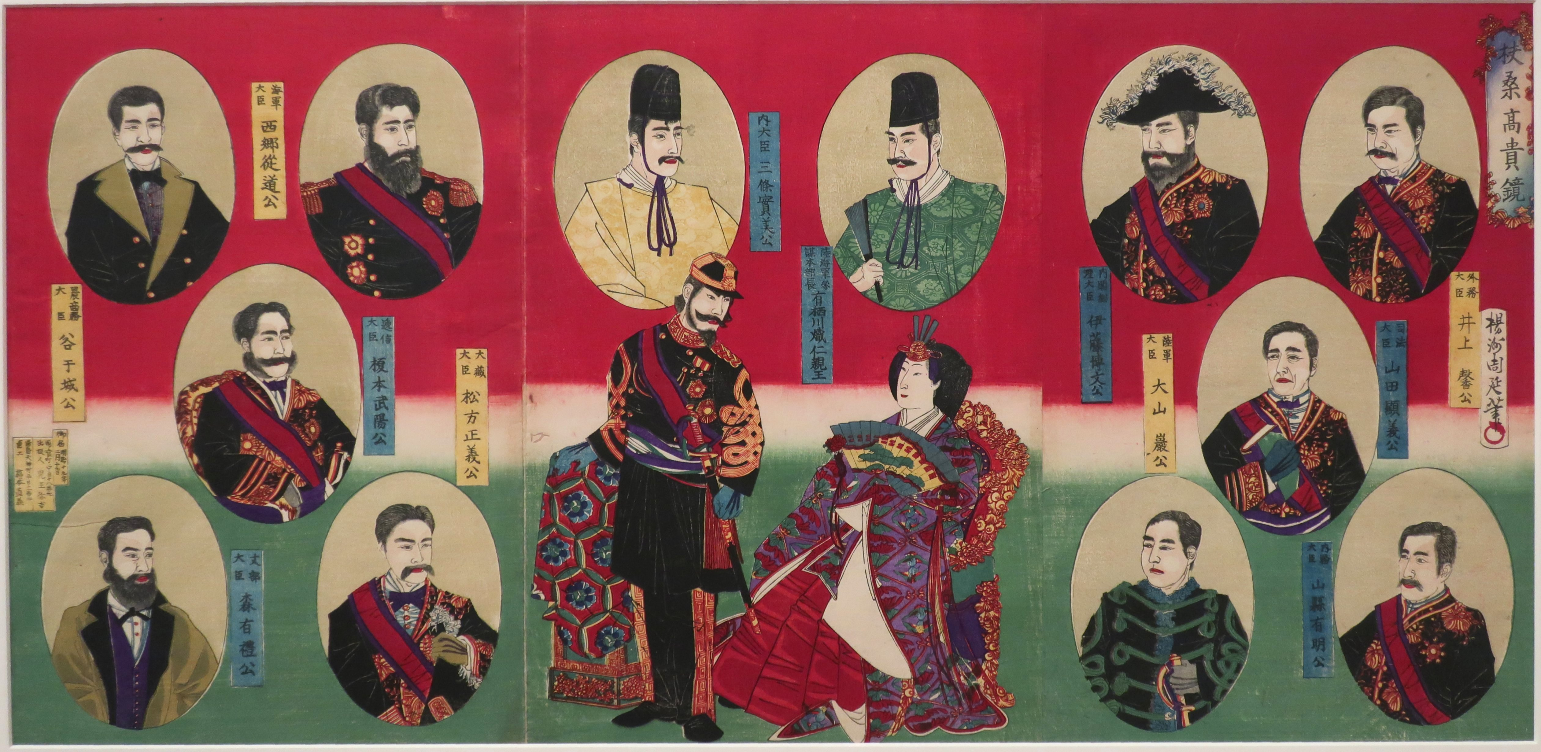 Japanese Ministers of the Meiji Period by Hashimoto Chikanobu, Meiji period, 1886, woodblock triptych, Honolulu Museum of Art, accession 15113.39a. The Meiji Emperor and Empress appear at the center of this composition. Top row, from right to left: Minister of Foreign Affairs Inoue Kaoru (1836– 1915), Prime Minister Itō Hirobumi (1841–1909), Army Chief Arisugawa Taruhito (1835–1895), Minister of the Center Sanjō Sanetomi (1837– 1891), Admiral Saigō Jūdō (1843–1902), and Lieutenant General Tani Tateki (1837–1911). Middle row, from right to left: Cabinet Minister Yamada Akiyoshi (1844–1892) and Minister of Communications and Transportation Enomoto Takeaki (1836–1908). Bottom row, from right to left: Home Minister Yamagata Aritomo (1838–1922), Minister of War Ōyama Iwao (1842–1916), Minister of the Interior Matsukata Masayoshi (1835–1924), and Minister of Education Mori Arinori (1847–1889).